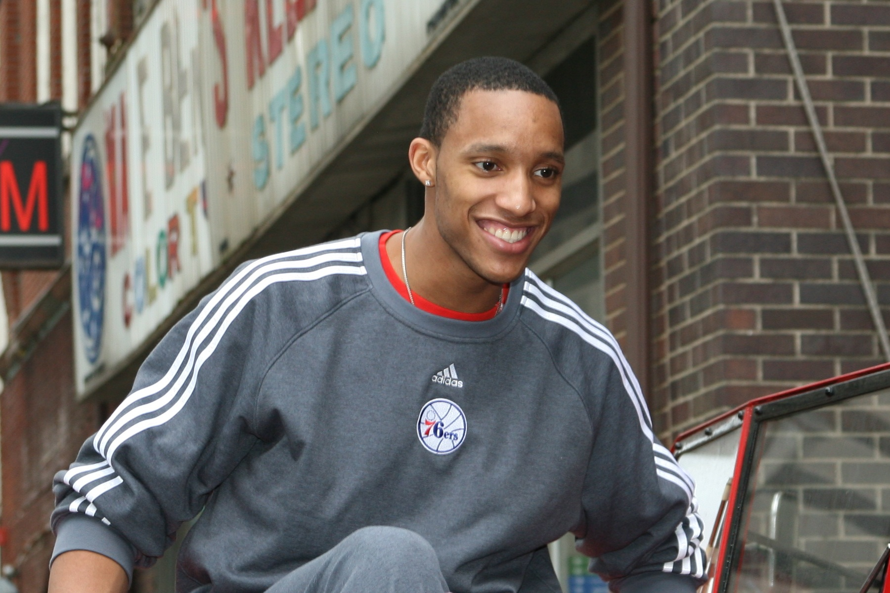 Evan Turner